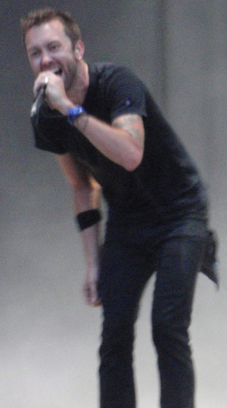 Rise Against @ Bilbao BBK Live, 2010